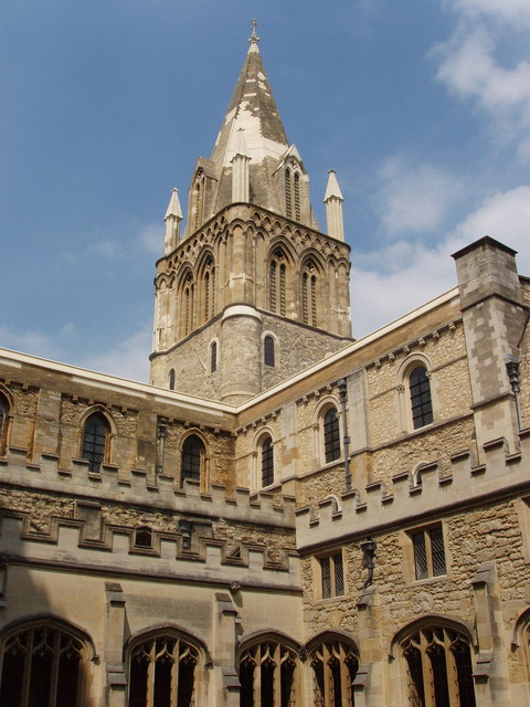 Tower and spire of Christ Church Cathedral, Oxford, seen from the cloisters